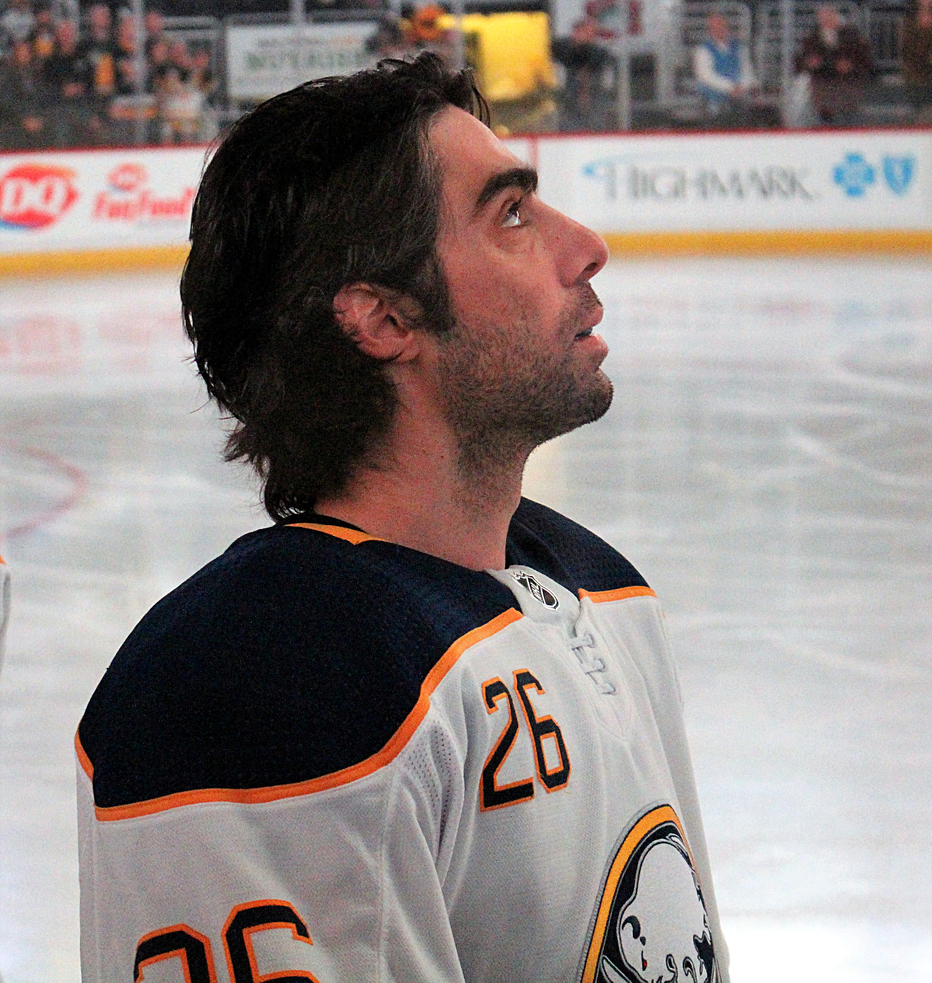 Buffalo Sabres forward Matt Moulson during a game against the Pittsburgh Penguins, November 14, 2017, at PPG Paints Arena in Pittsburgh, PA.